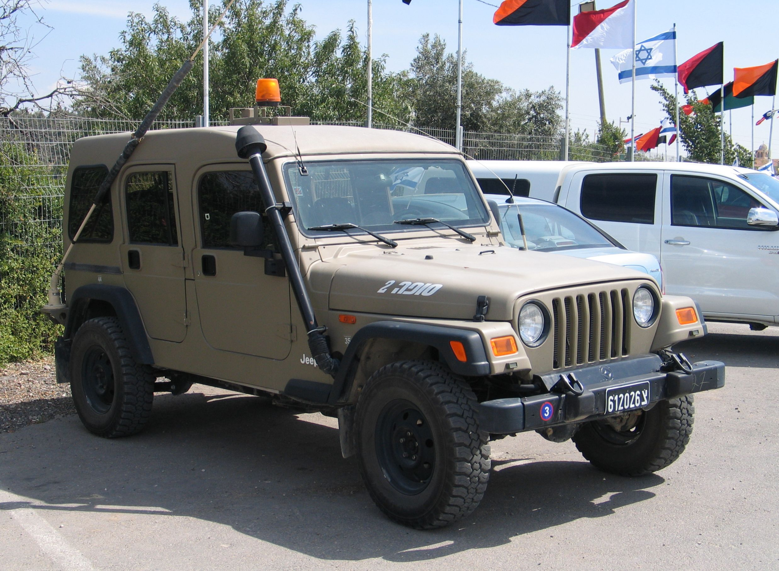 Israel's 60th Independence Day exhibition in Yad la-Shiryon Museum, Israel.